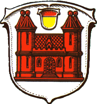 coat of arms of the German city of Lich (Hessen)